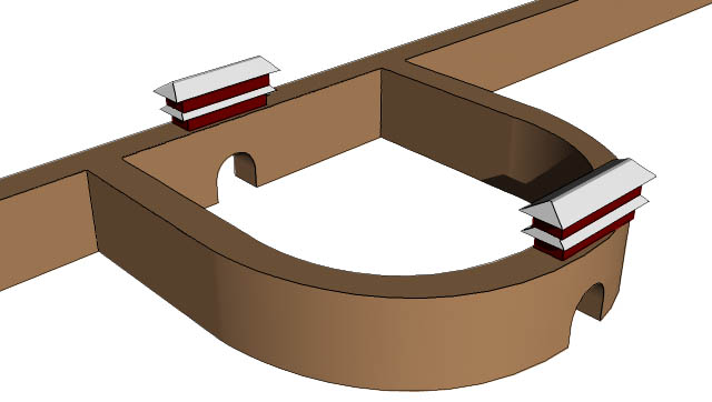 WengCheng which is alike chinese barbican.